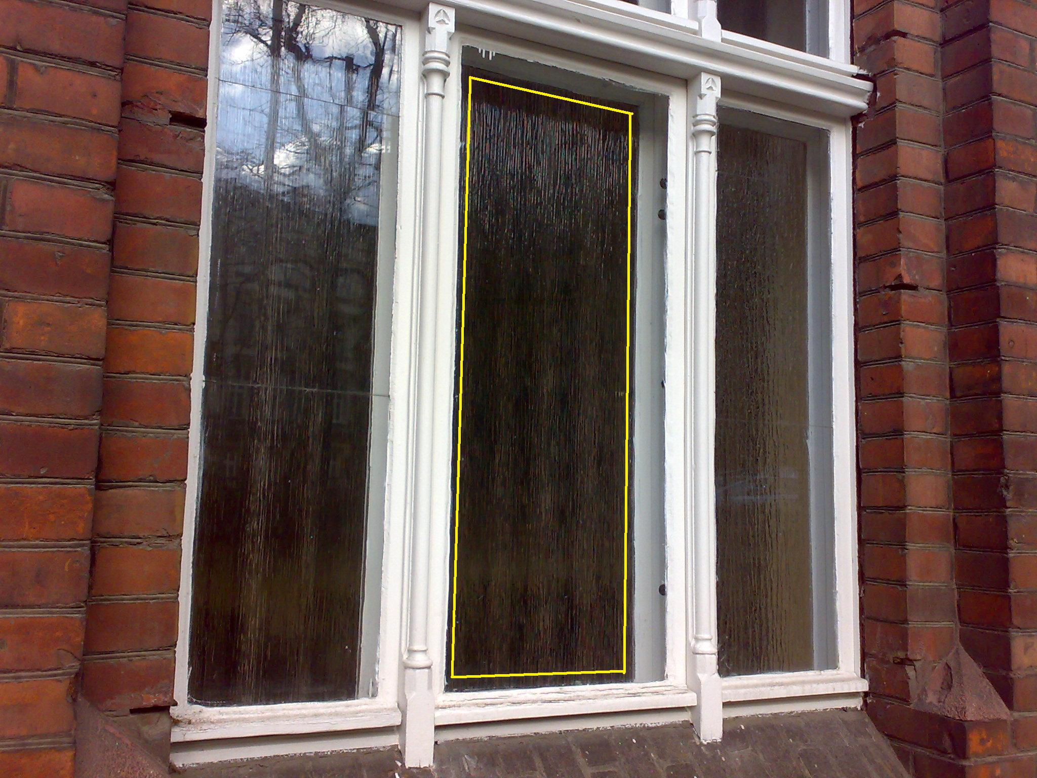 Poznań, Window - Fredry Street.